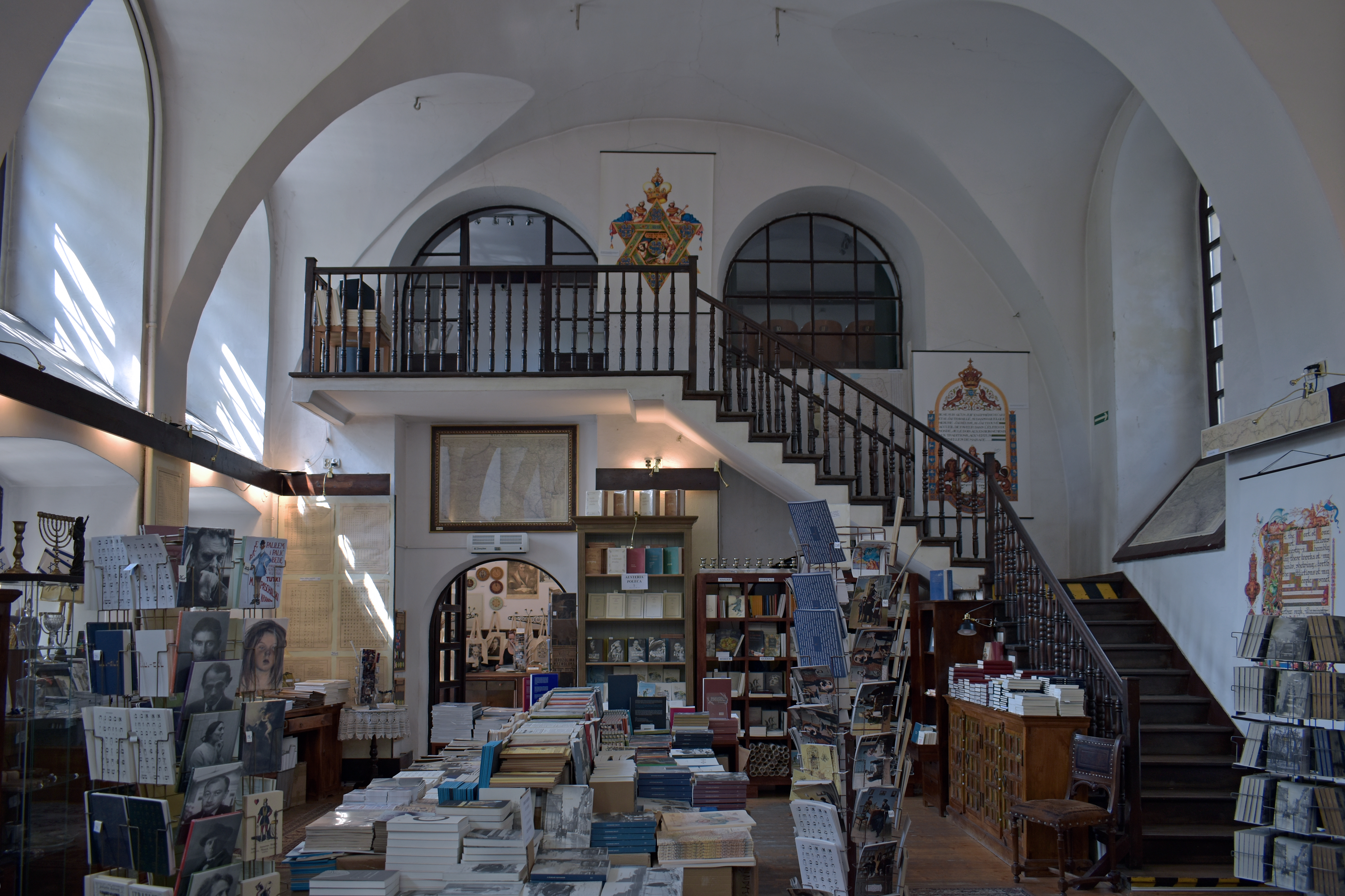 Wolf Popper Synagogue, interior1, 16 Szeroka street, Kazimierz, Kraków, Poland